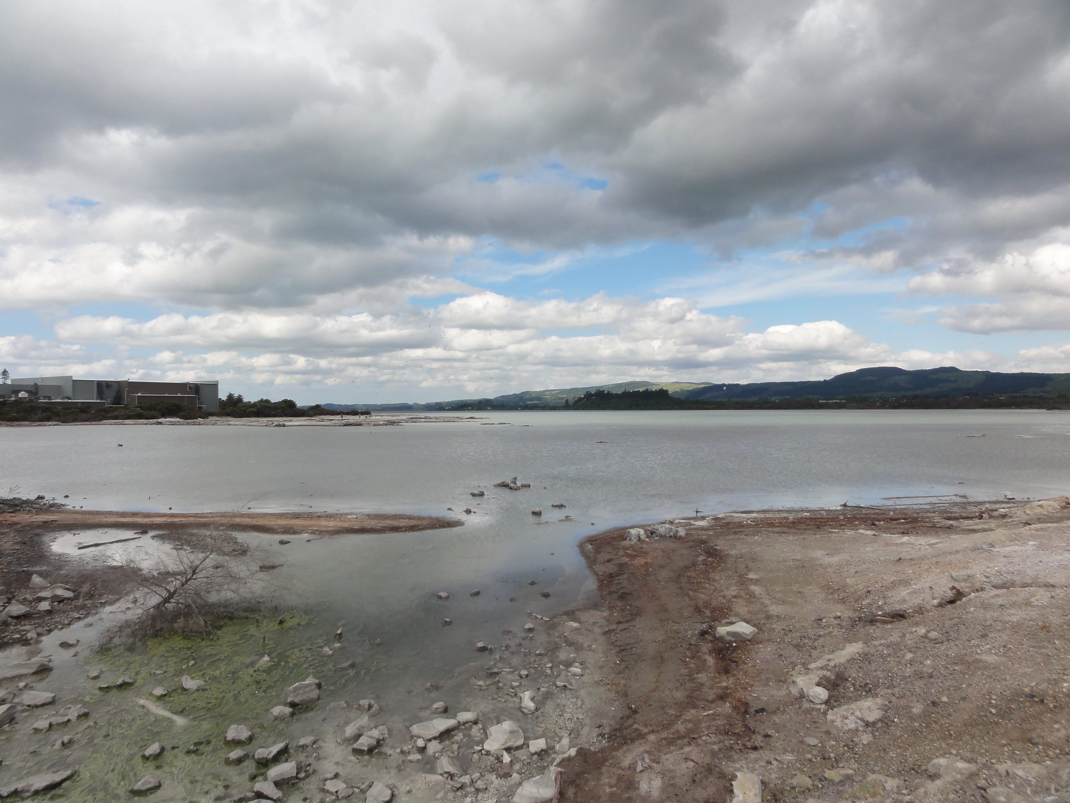 Sulphur Bay at Rotorua, New Zealand